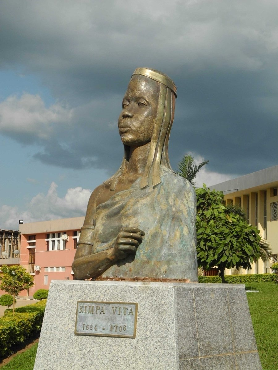 Kimpa Vita's statue in Angola (Uíge). Photography was permitted